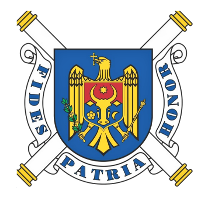 MFA Moldova